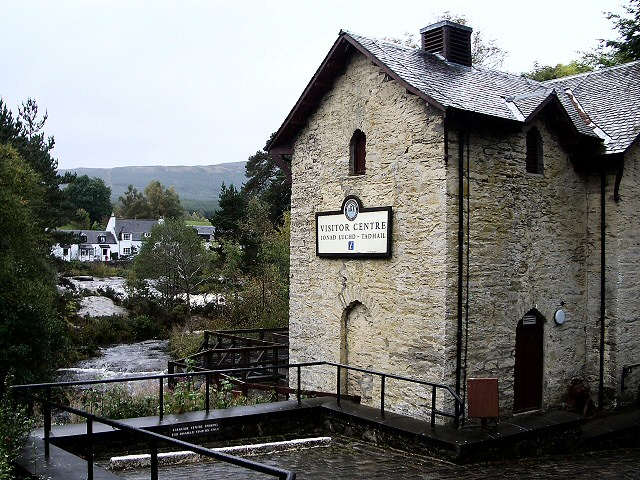 Killin Visitor Centre. The view south east across the Falls of Dochart.